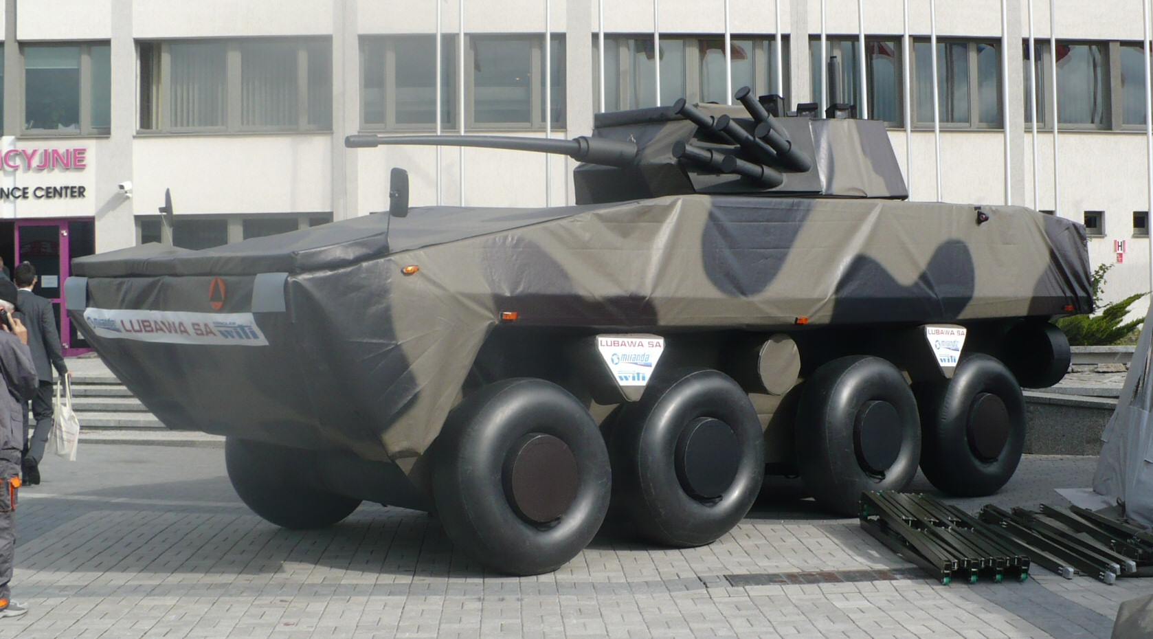 Polish Rosomak APC inflatable mock-up by Lubawa.